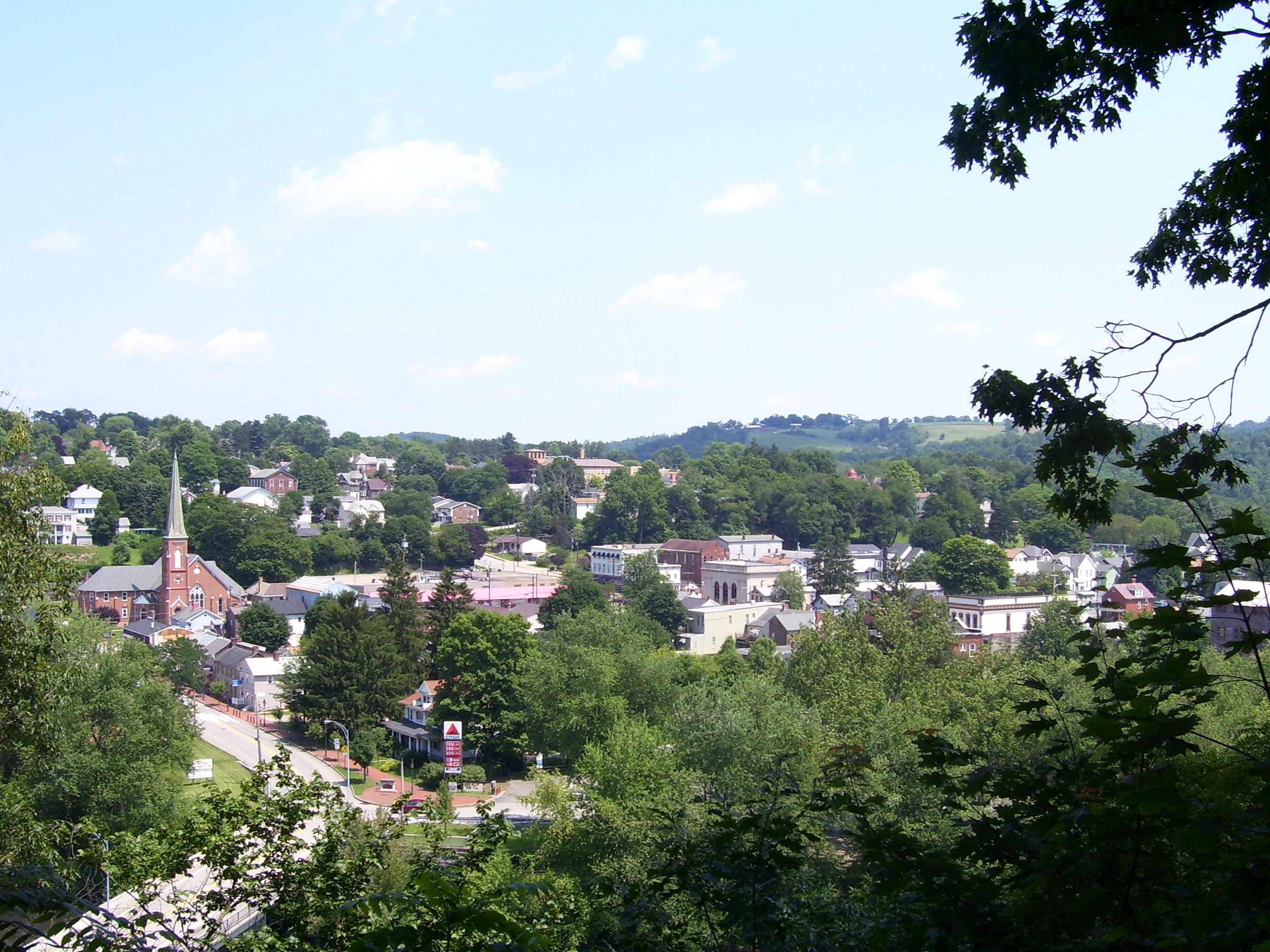 Picture of Saltsburg taken from the overlook located on the East side of The Kiski School